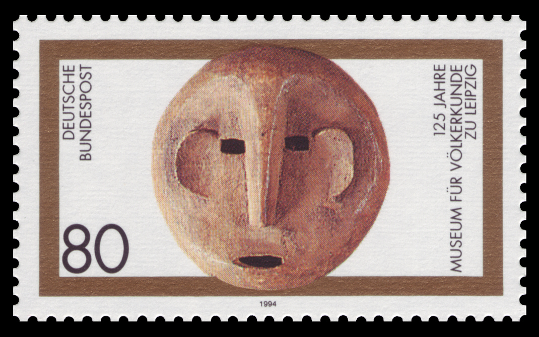 125 years of the Leipzig Museum of Ethnography